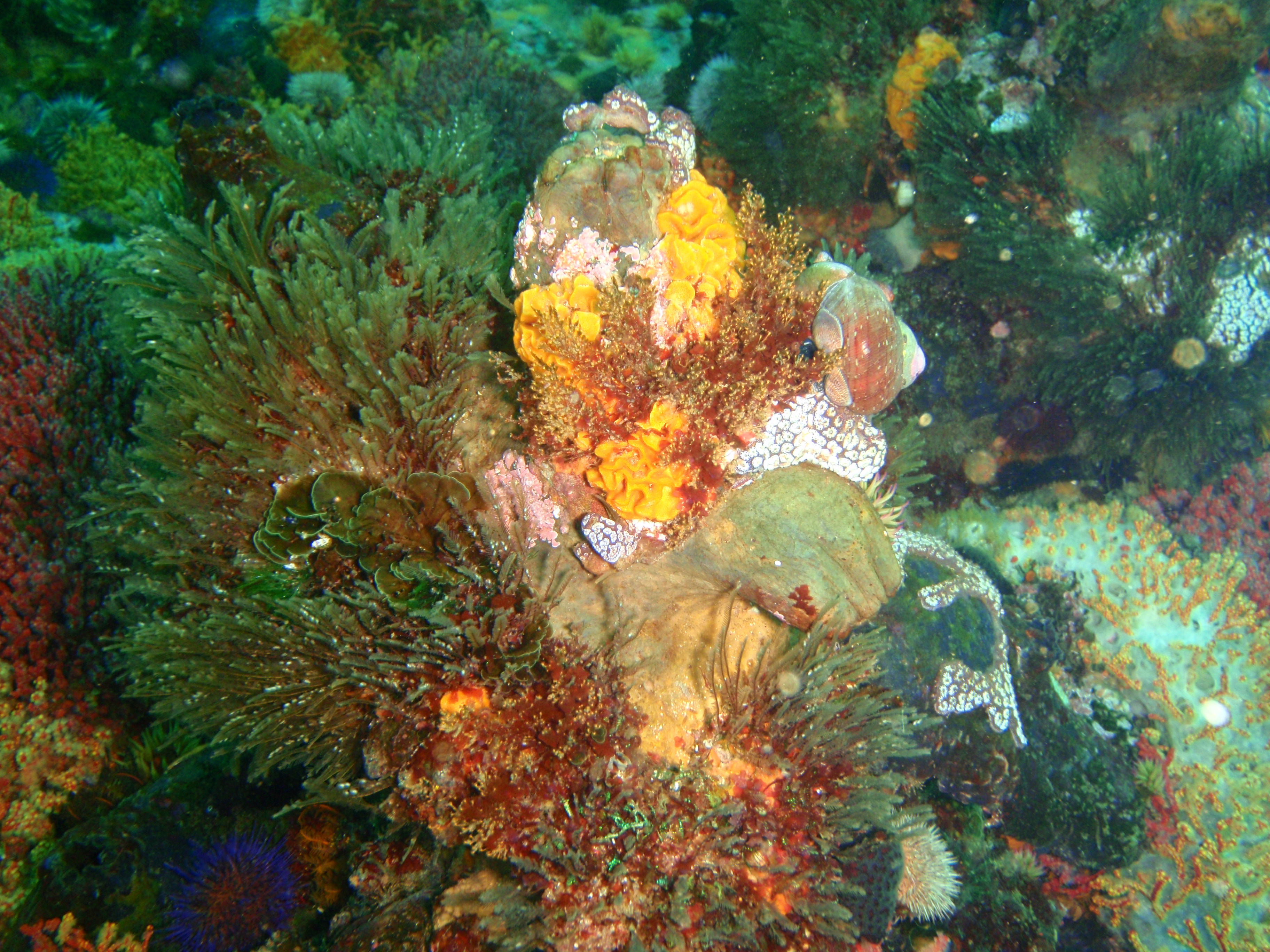 Several layers of marine organisms may co-exist in apparent harmony, Batsata Maze, Cape Peninsula.